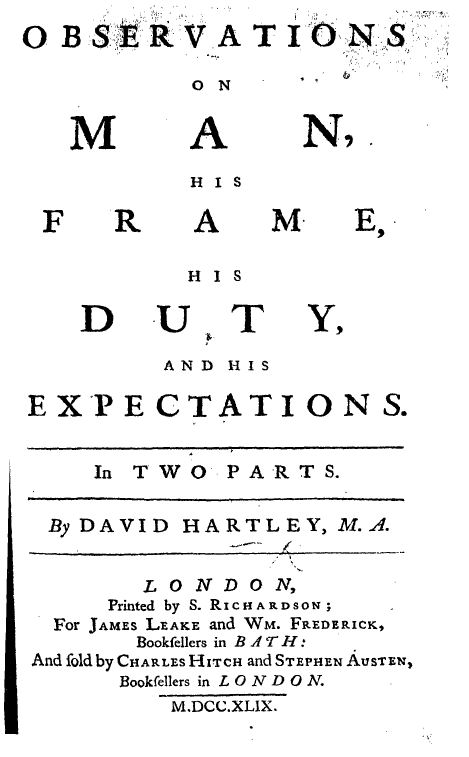 Hartley, David. Observations on Man. Eighteenth Century Collections Online.